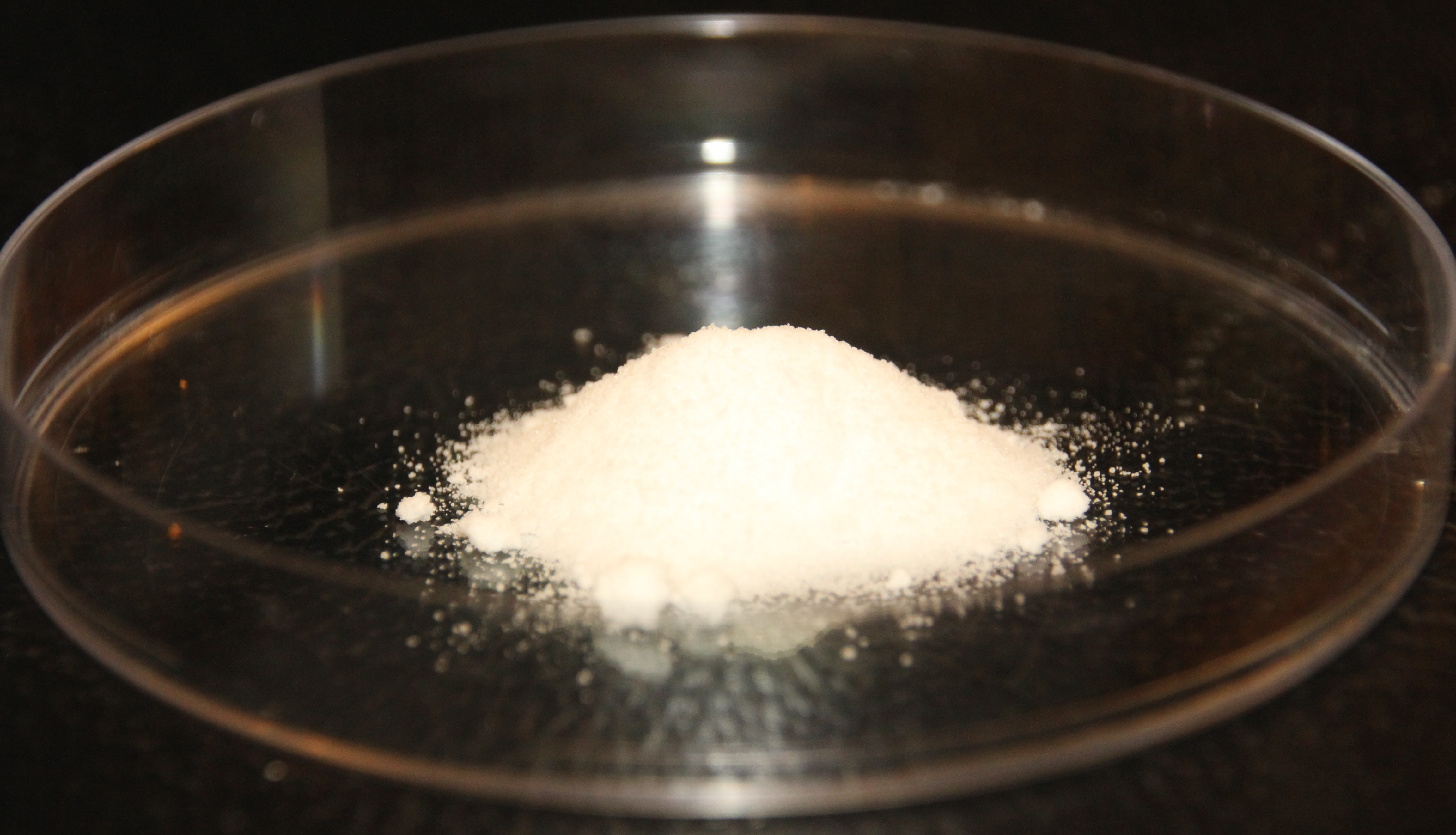 Sample of racemic malic acid